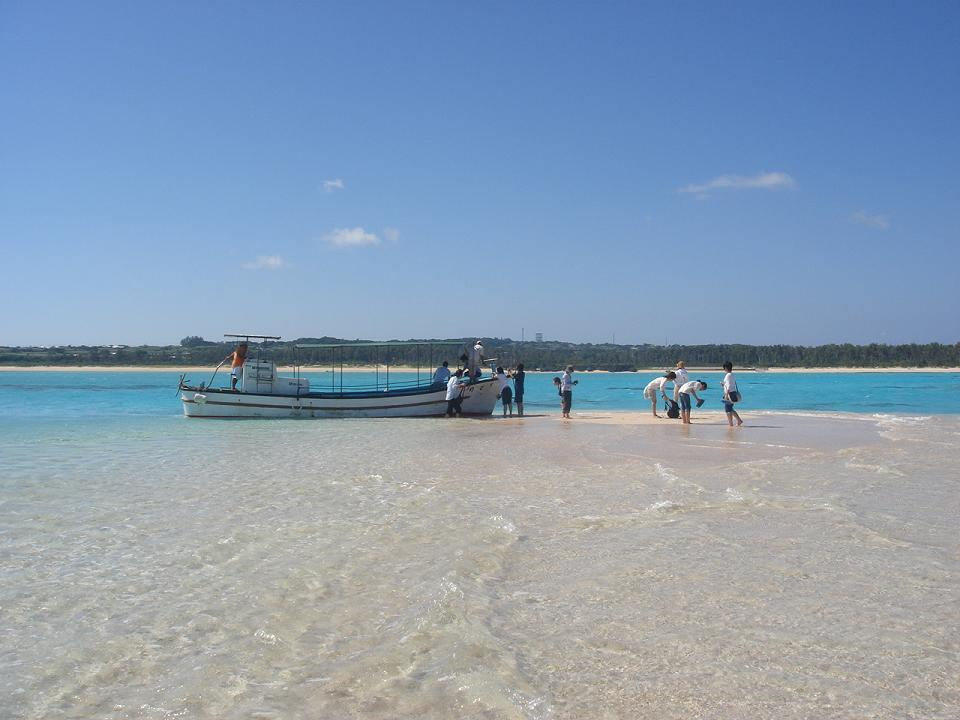 Yuriga-hama, Yoron-jima